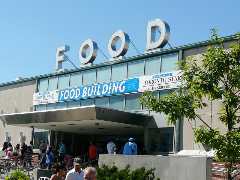 The Food Building (officially the Food Products Building) at Exhibition Place in Toronto, Canada, taken during the Canadian National Exhibition. The Food Building is like the food court of a huge mall. It is packed with small stalls selling everything from fish and chips, to hot dogs, hamburgers, and tons of other fast food offerings. Some local restaurants setup shop in here as well, and when I was there last week with the kids I discovered an amazing Vietnamese restaurant only a few blocks from my office, because of their Food Building offerings. Today, Labour Day here in Canada, heralds the end of the Canadian National Exhibition here in Toronto, for another year.